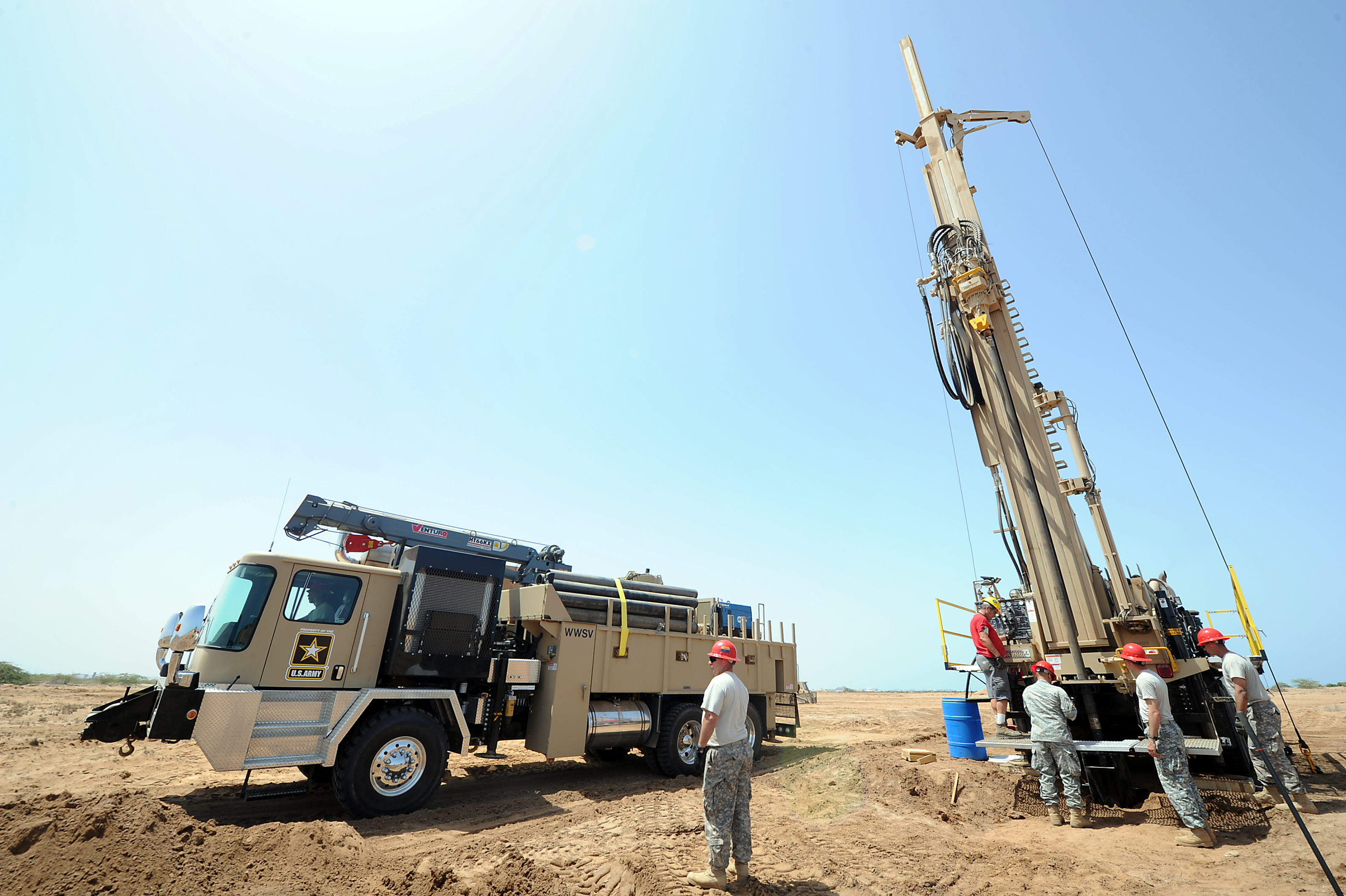 U.S. Army 257th Engineer Team members prepare to drill the first of four wells during a 24-hour well drilling operations just outside Camp Lemonnier here, March 12. This project allowed the team to evaluate the water tables in the aquifer and make plans for camp expansion. The well development project directly supports Camp Lemonnier's initiative to identify alternative well locations and assist in development of camp infrastructure.